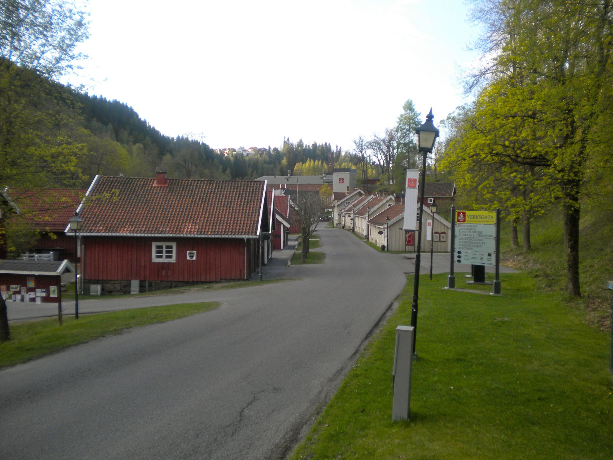 Verksgata on Bærums Verk seen from the south